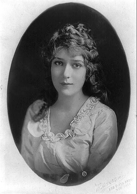 Mary Pickford, half-length portrait, facing front